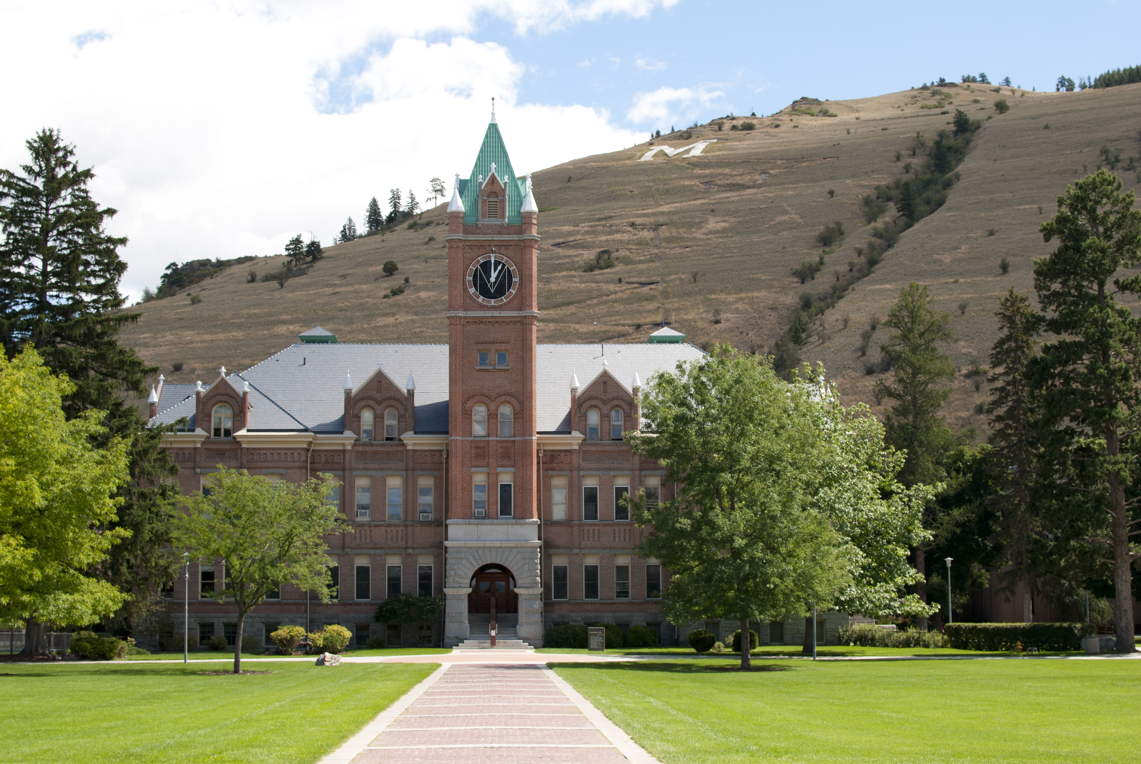 University (Main) Hall, University of Montana, in Missoula, Montana, United states.